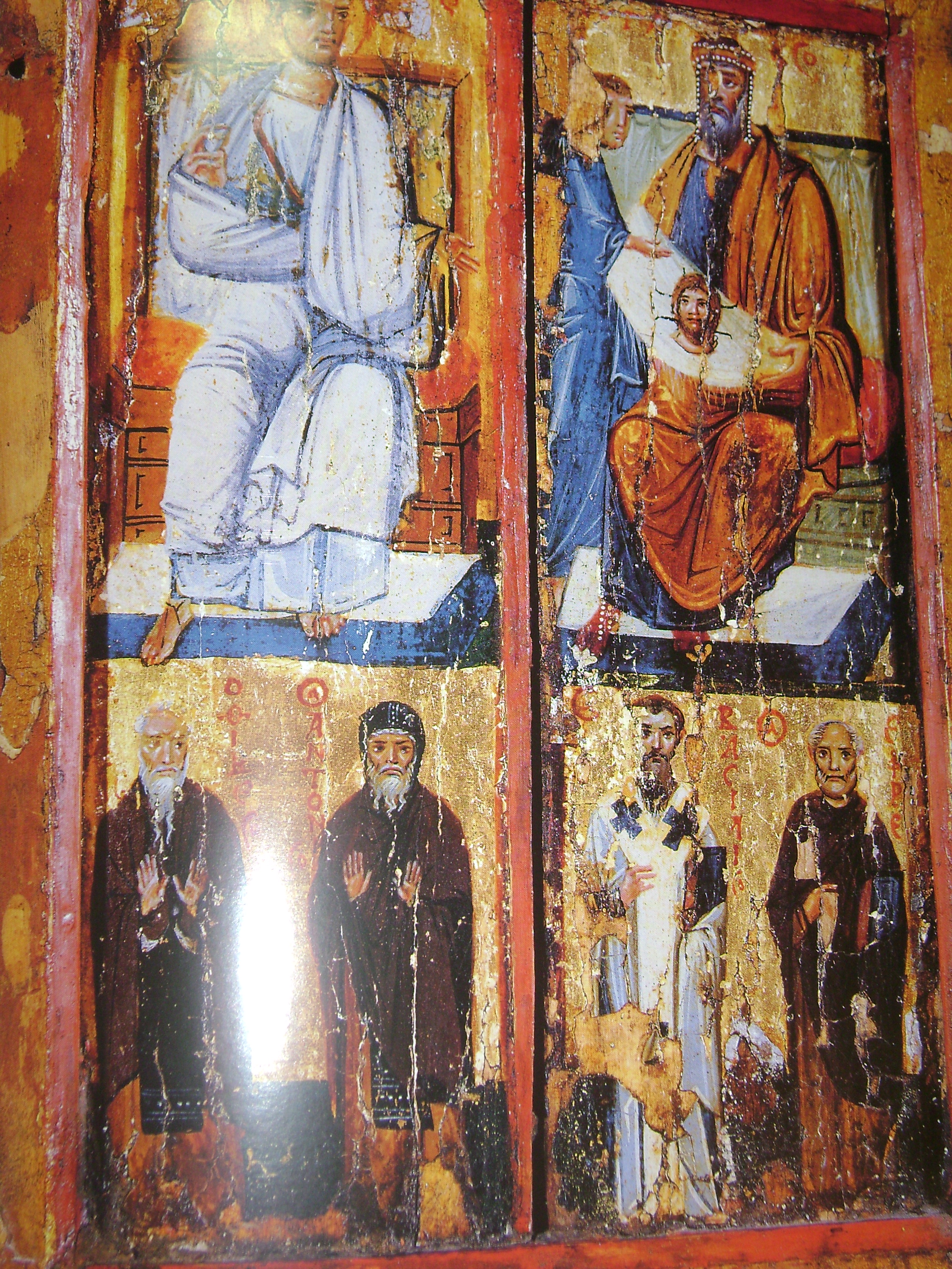 Triptych-Mount Sinai, Saint Catherine’s Monastery-Image of Edessa